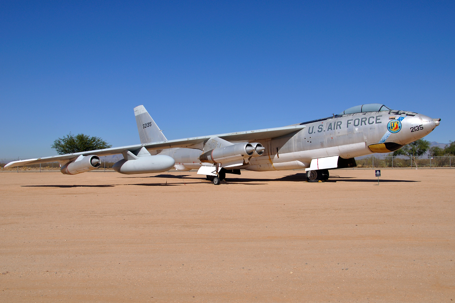 53-2135 Boeing EB-47E Stratojet 2 in 376th wing markings